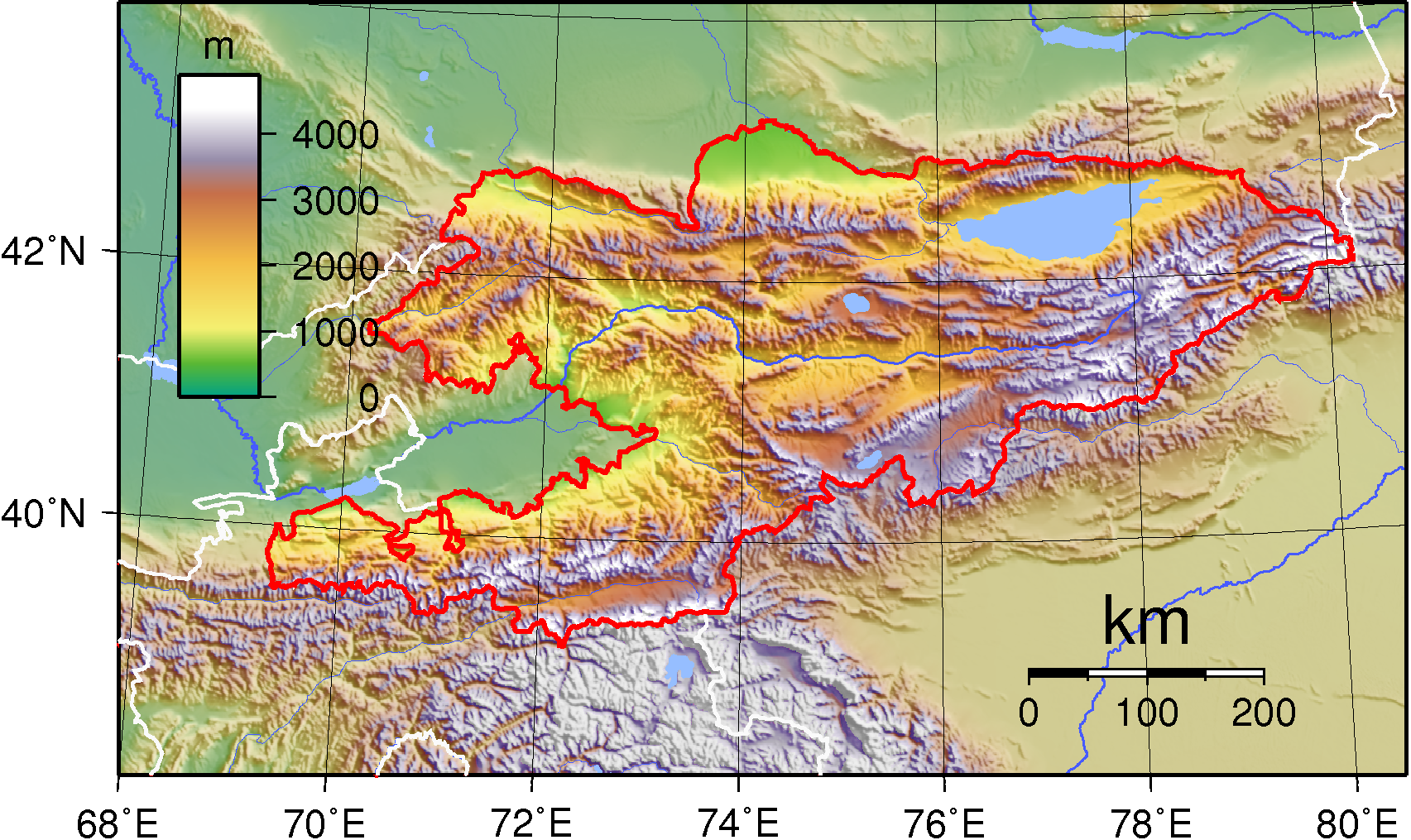 Topographic map of Kyrgyzstan. Created with GMT from public domain SRT data.